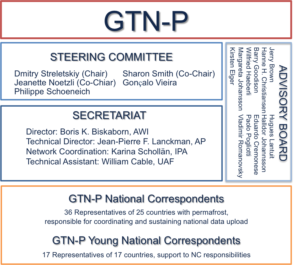 GTN-P Governance Structure